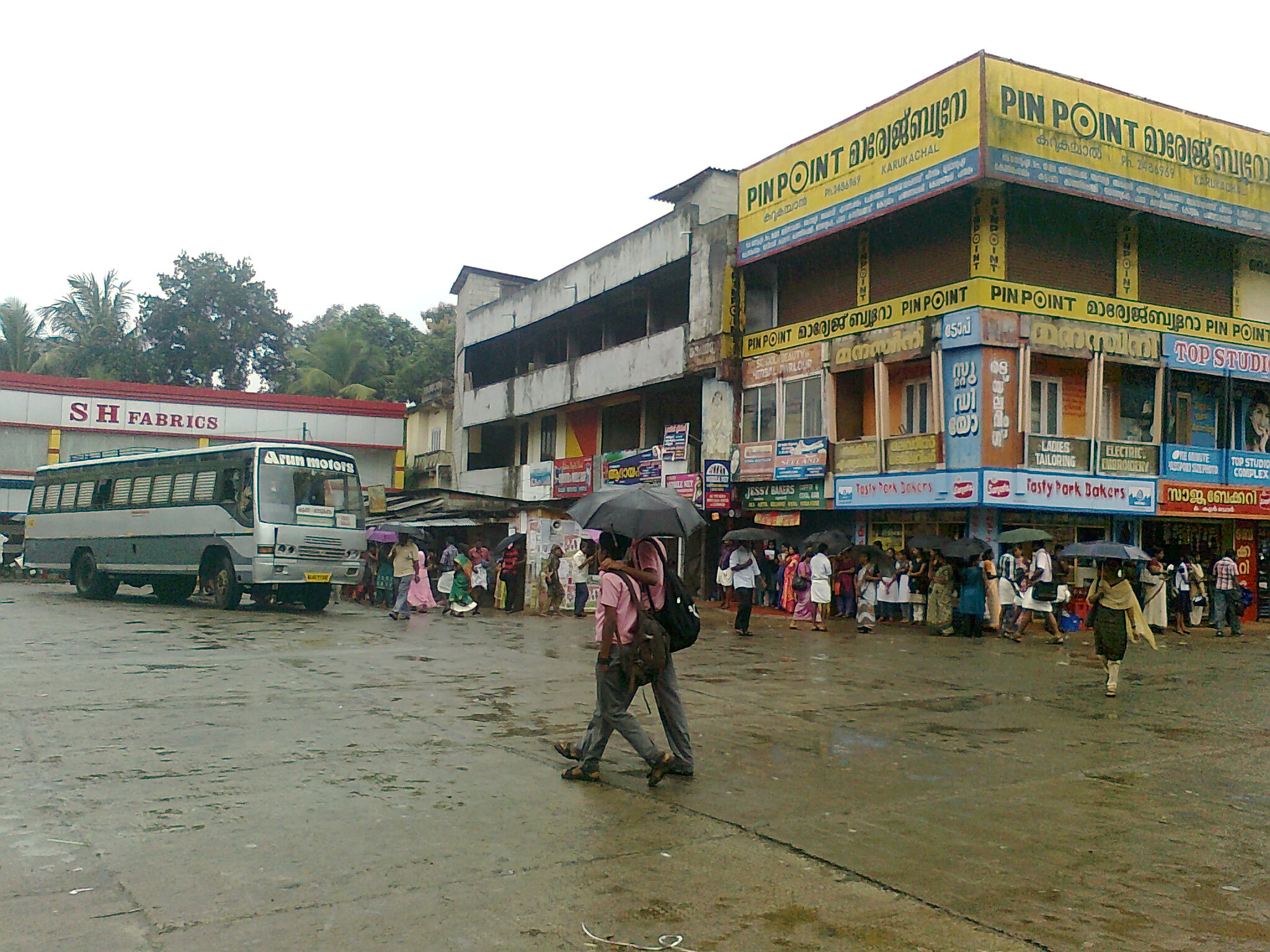 Mornign day view of Karukachal Bus Stand, Kerala.